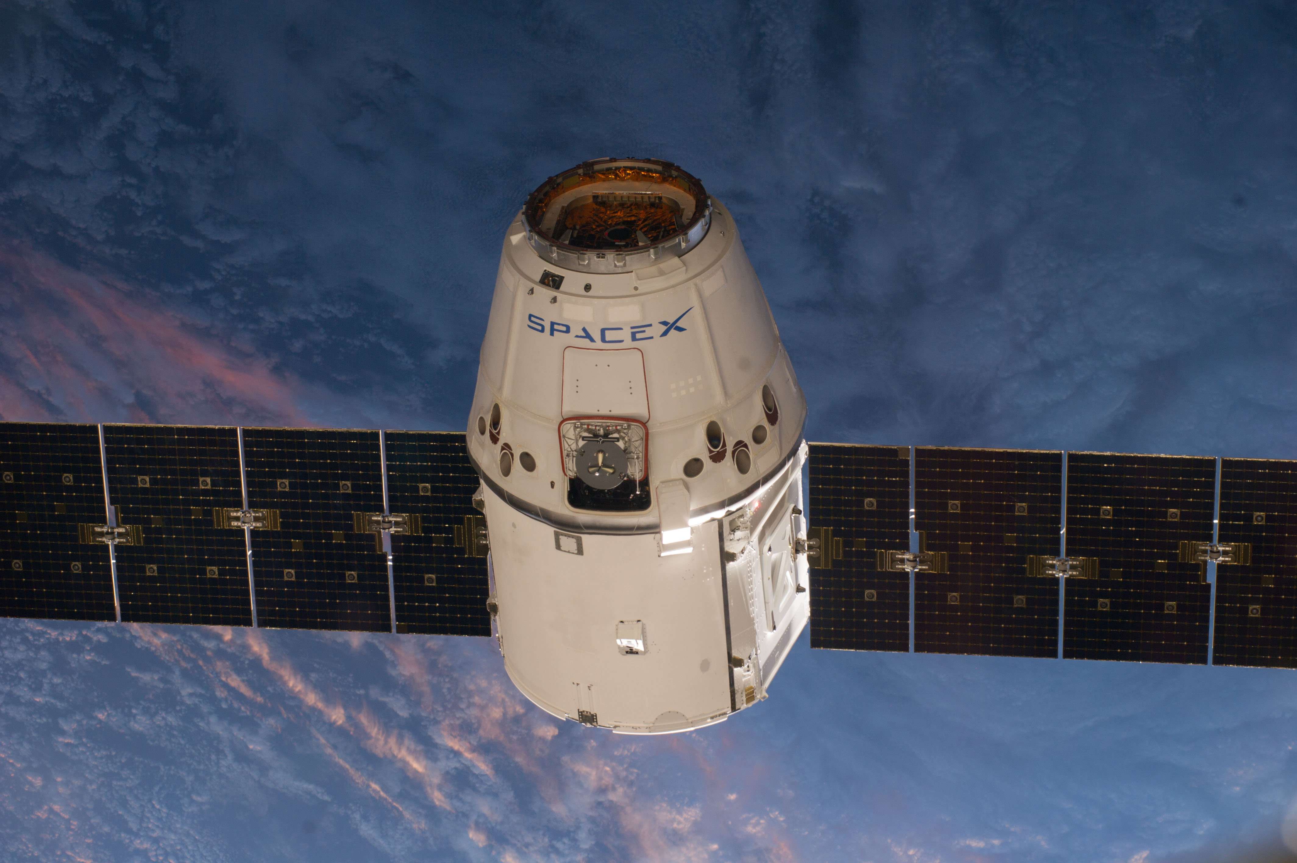 This is one of an extensive series of still photos documenting the arrival and ultimate capture and berthing of the SpaceX Dragon at the International Space Station, as photographed by the Expedition 39 crew members onboard the orbital outpost. The spacecraft was captured by the space station and successfully berthed, following the April 20 arrival.